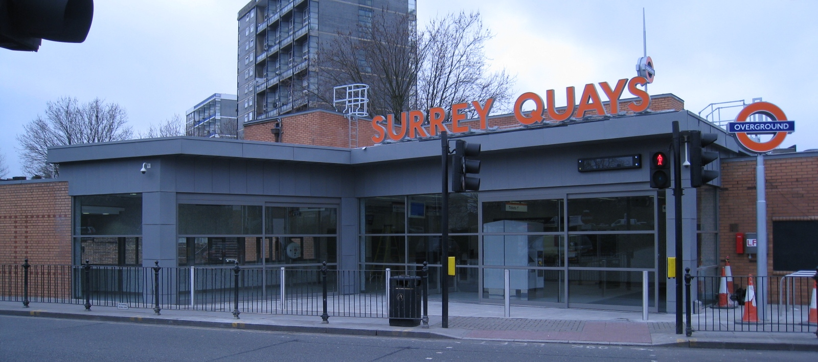 The front entrance of Surrey Quays railway station in March 2010, nearing completion prior to reopening five weeks later